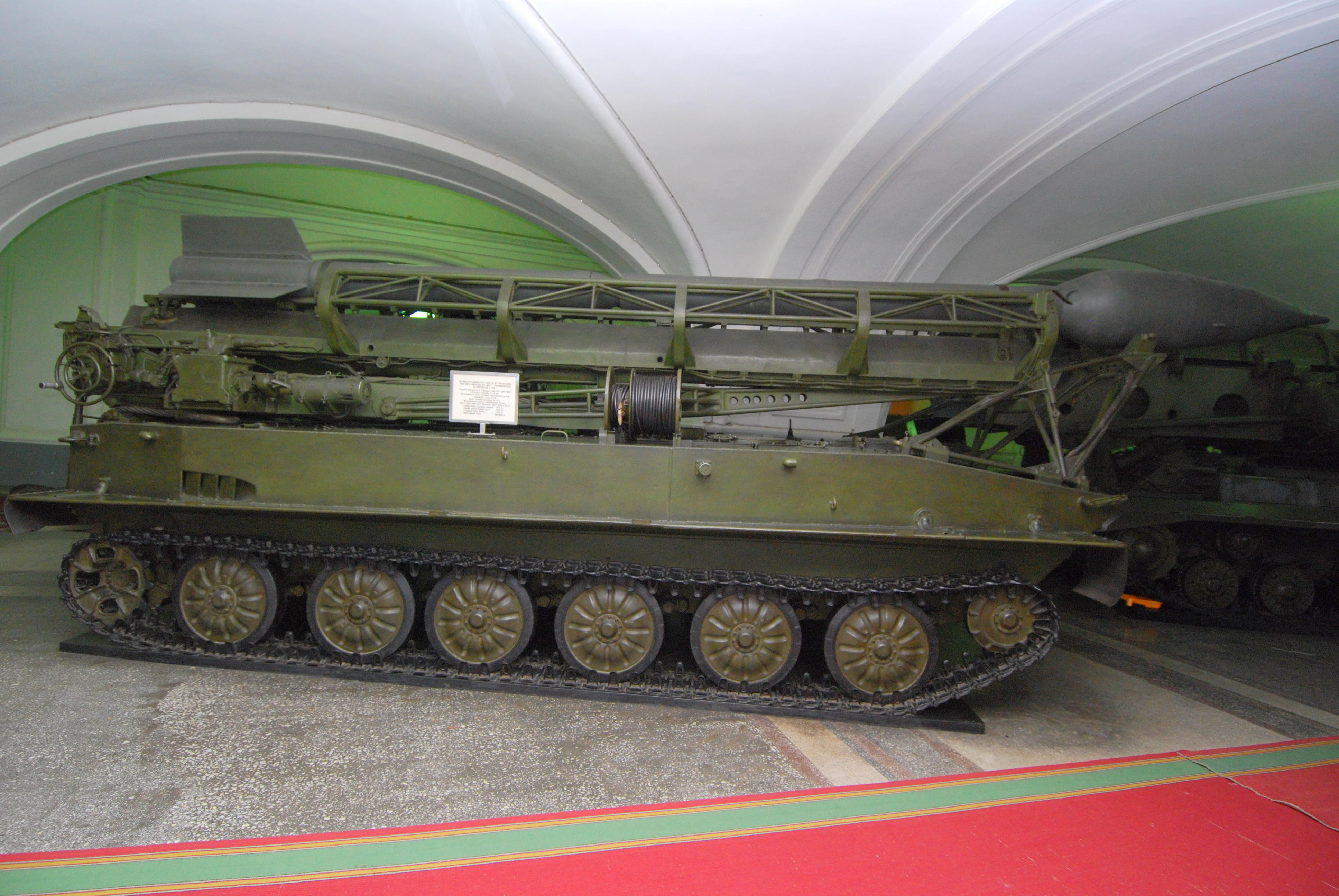 Side view of 2P2 Transporter-Erector-Launcher with 3R1 missile of 2K1 missile complex «Mars» in Saint Petersburg Artillery museum